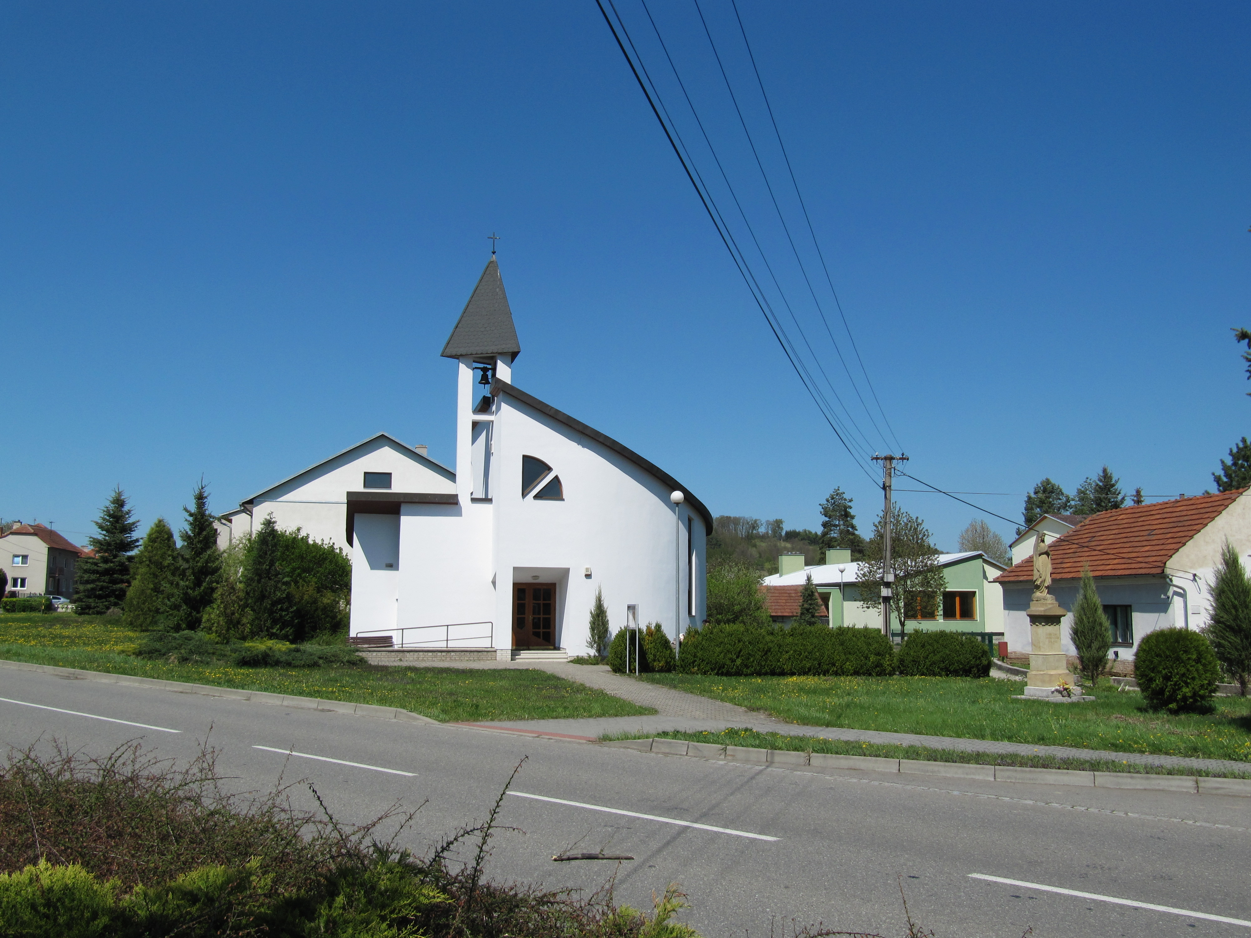 Biskupice in Zlín District, Czech Republic. Statue of Virgin Mary and the Chapel of the Assumption.